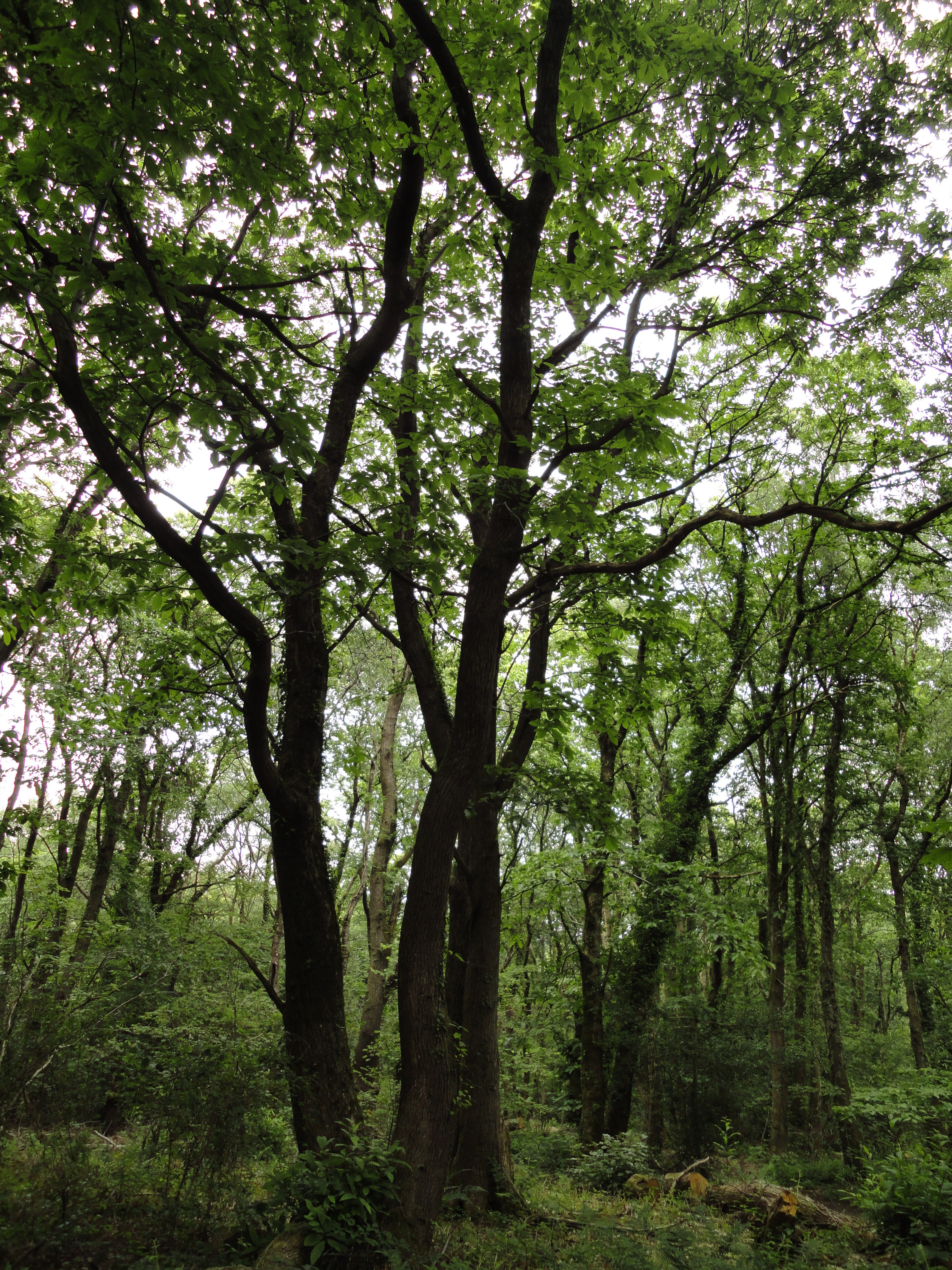 Bryngarw Country Park, Coed Waunpiod west